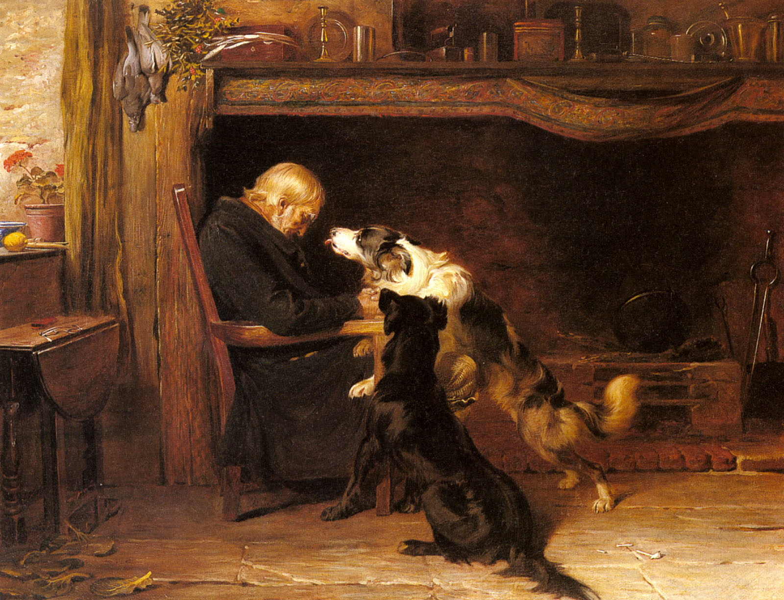 The Long Sleep